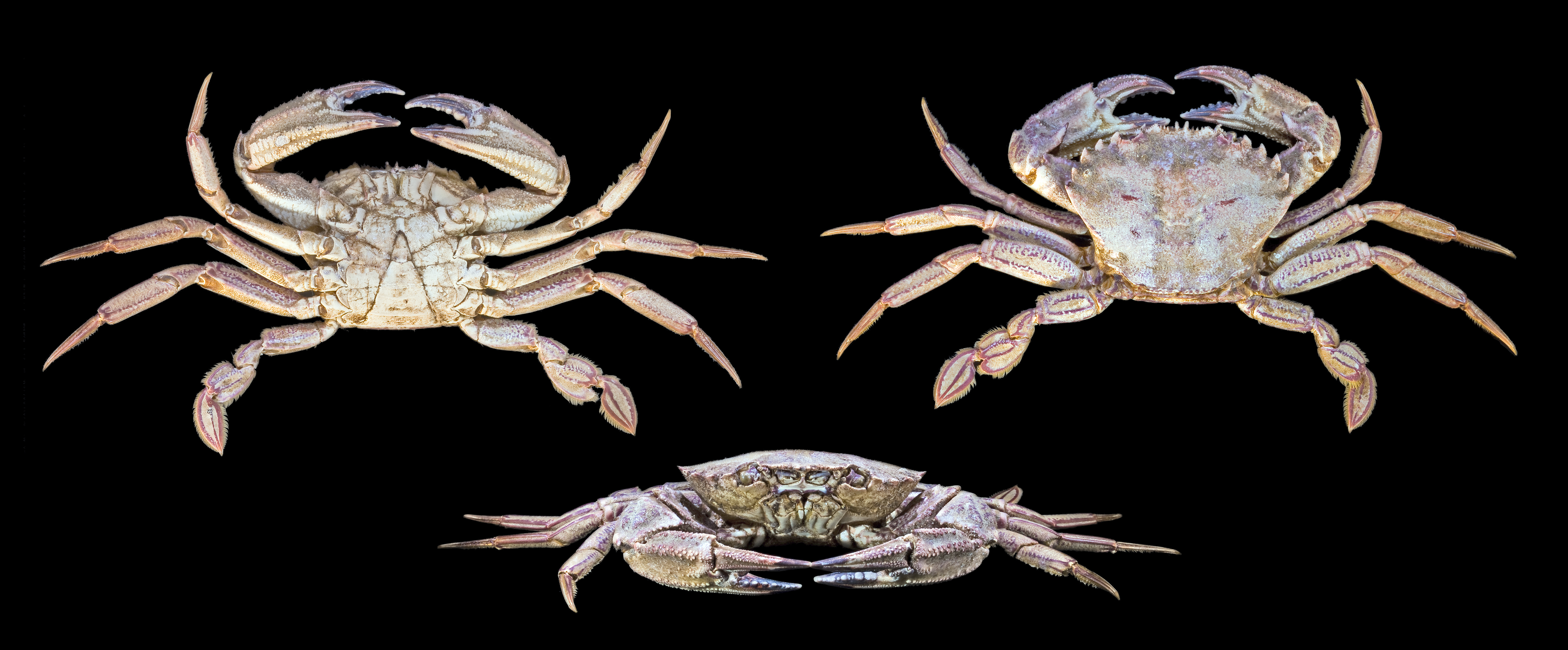 Velvet crab - (Male) - Same specimen - Carapace 7.8cm - Atlantic Ocean